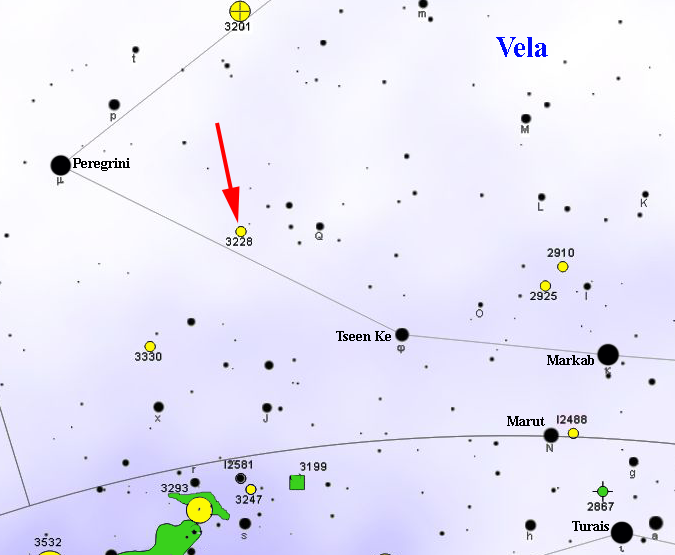 Map of NGC 3228